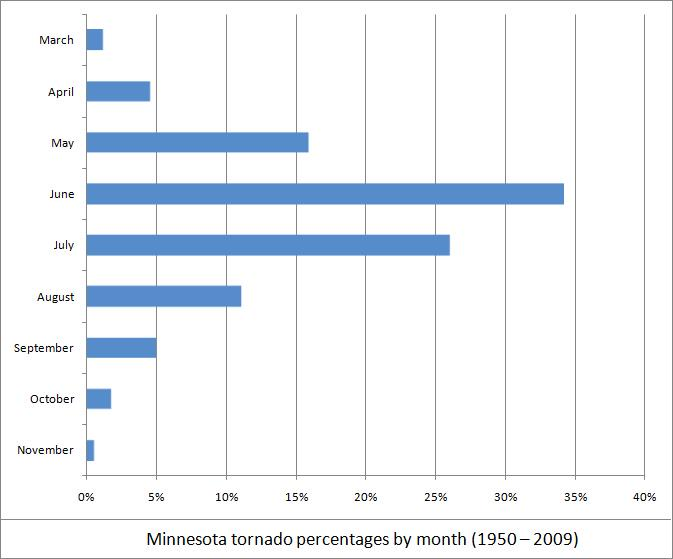 Percentage of tornadoes in Minnesota by month.